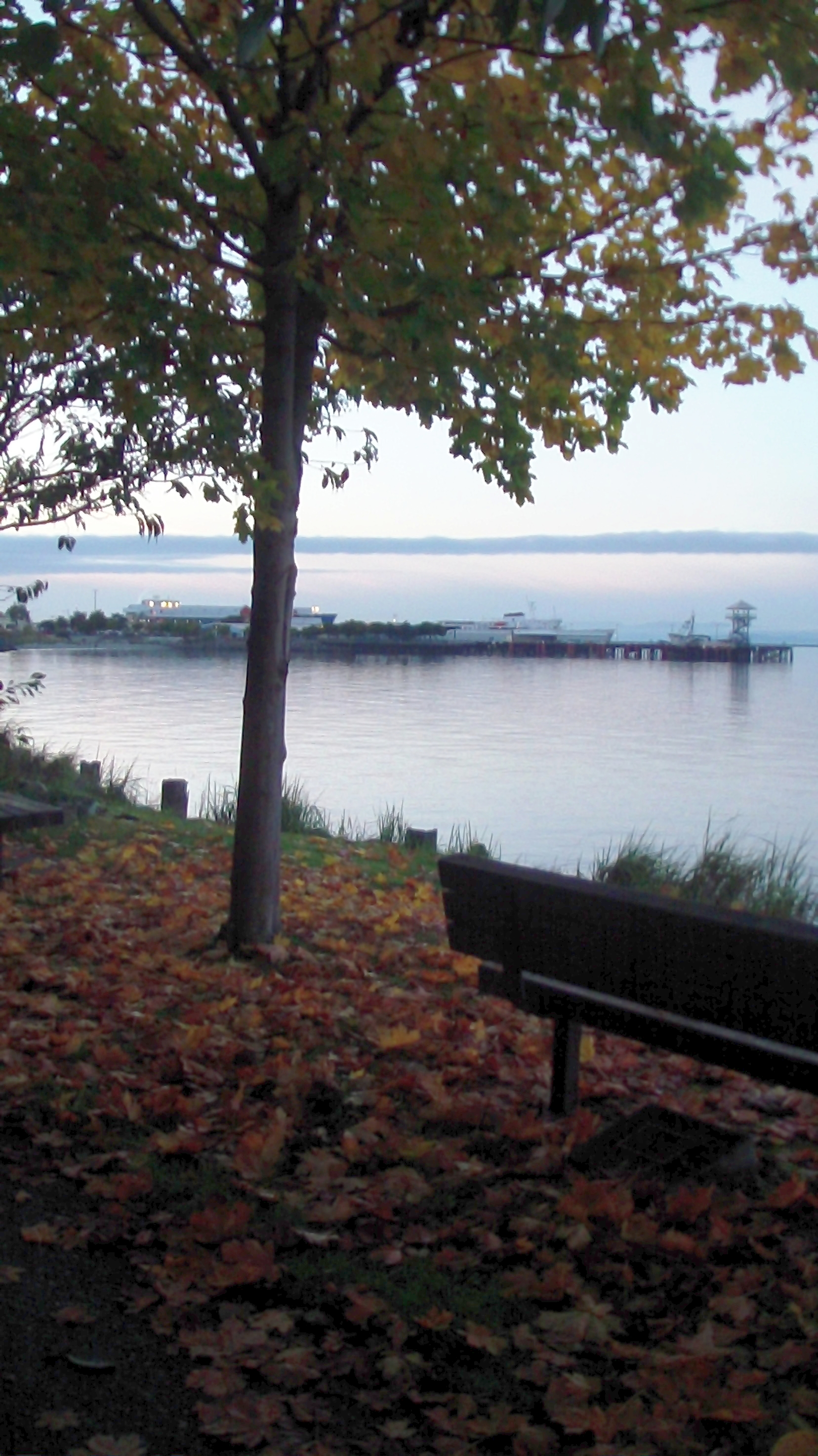 The view of the Strait of Juan de Fuca from the Olympic Discovery Trail, Washington, United States.